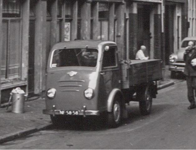 NF-58-58 Gutbrod Atlas